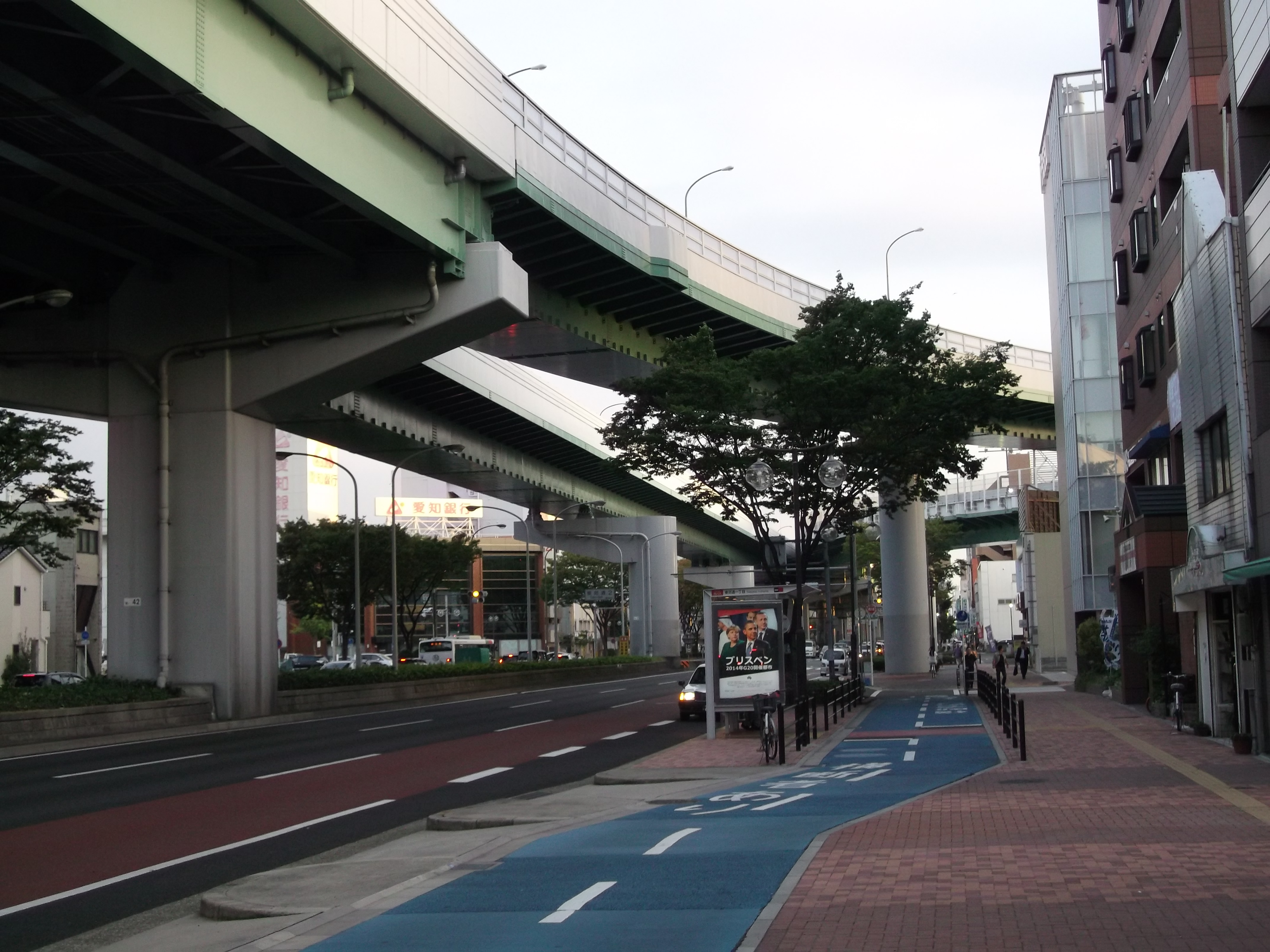 Tsurumai-minami Junction on the Nagoya Expressway Ring Route and Route 3 in Showa-ku, Nagoya City